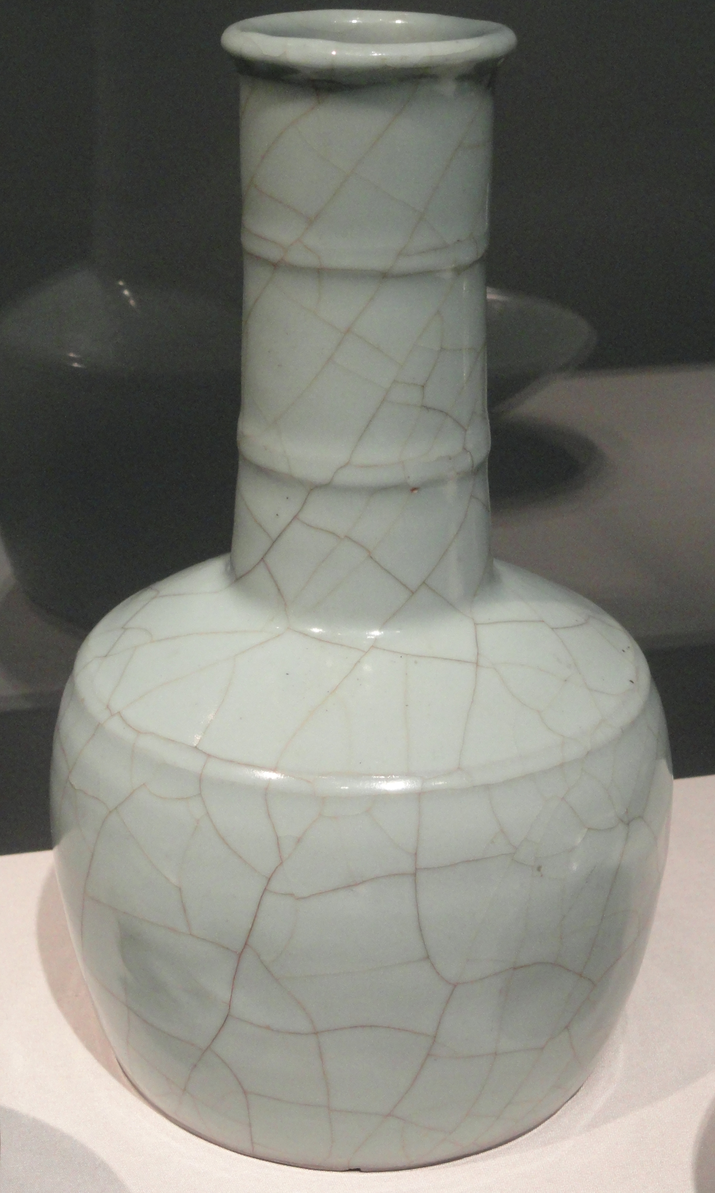 Exhibit in the Freer Gallery of Art, Washington, DC, USA. This artwork is old enough so that it is in the public domain.